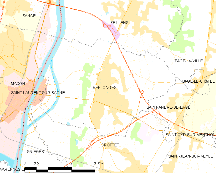 Map of French commune: Replonges Map commune FR insee code 01320.png